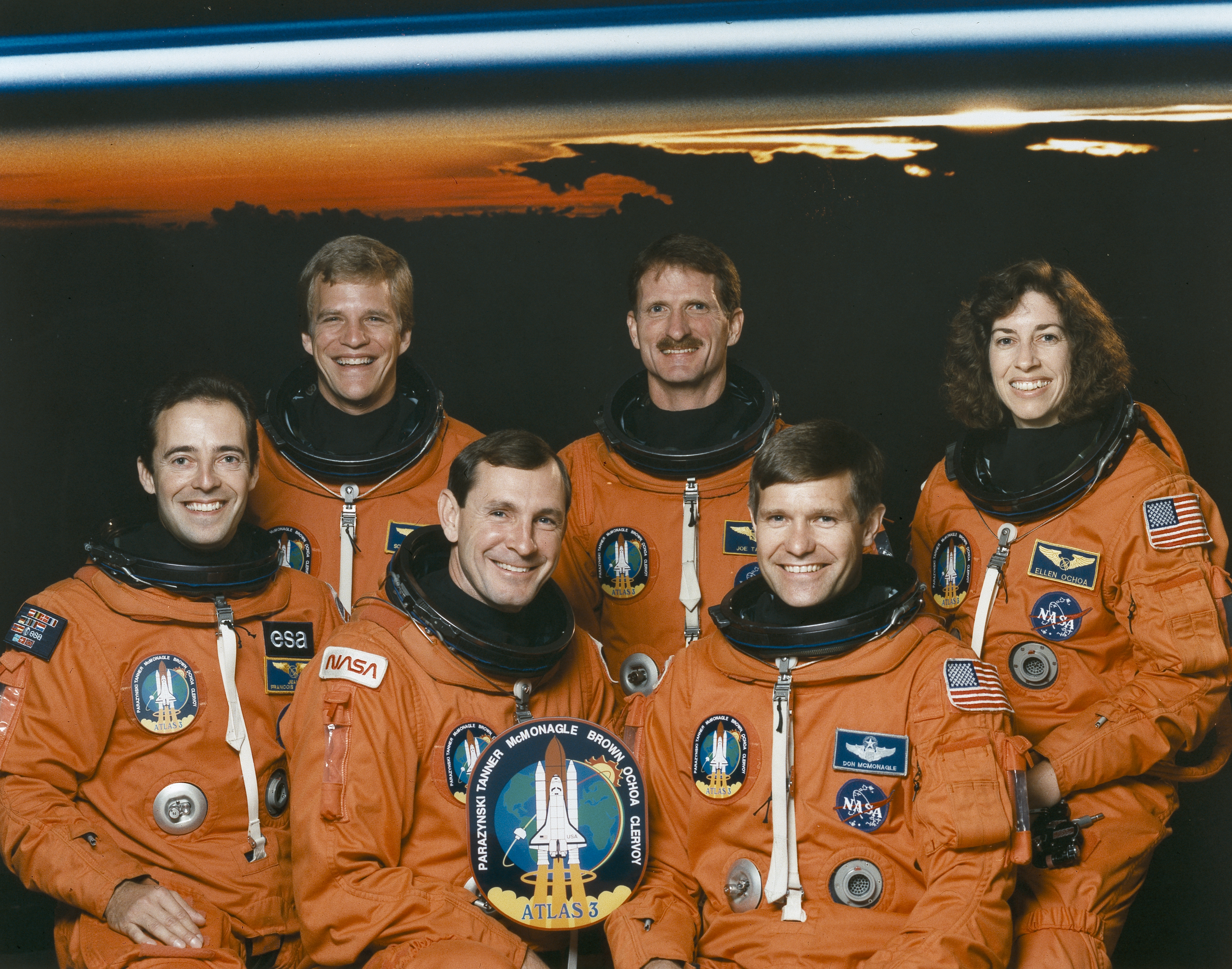 The crew assigned to the STS-66 mission included (left to right) Jean-Francois Clervoy, mission specialist; Scott E. Parazynski, mission specialist; Curtis L. Brown, pilot; Joseph R. Tanner, mission specialist; Donald R. McMonagle, commander; and Ellen S. Ochoa, payload commander. Launched aboard the Space Shuttle Atlantis on November 3, 1994 at 11:59:43 am (EST), the STS-66 mission's primary payloads were the Atmospheric Laboratory for Applications and Science-3 (ATLAS-3) and Cryogenic Infrared Spectrometers and Telescopes for the Atmosphere Shuttle Pallet Satellite (CRIST-SPAS).